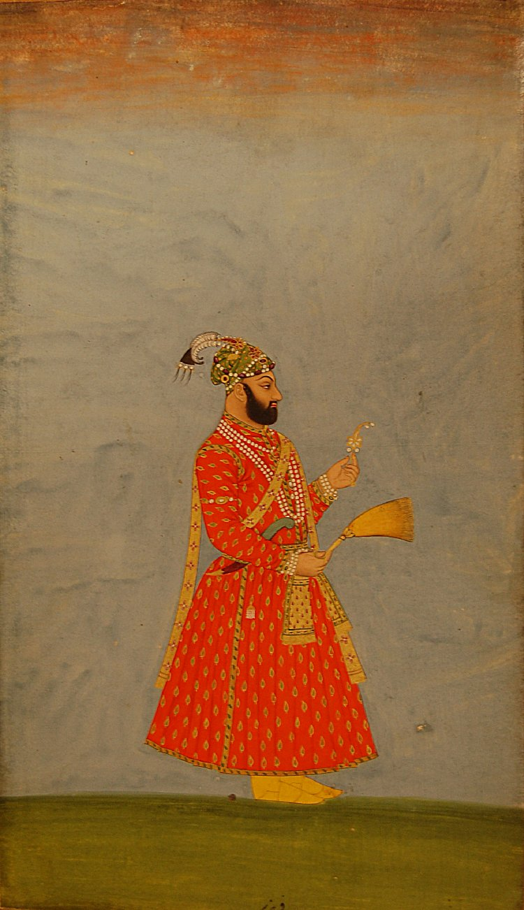 Gouache painting mounted on card and affixed into an album of 42 depicting a combination of portrait and genre scenes in a variety of painting styles. A standing portrait of the Mughal Emperor Farrukhsiyar.